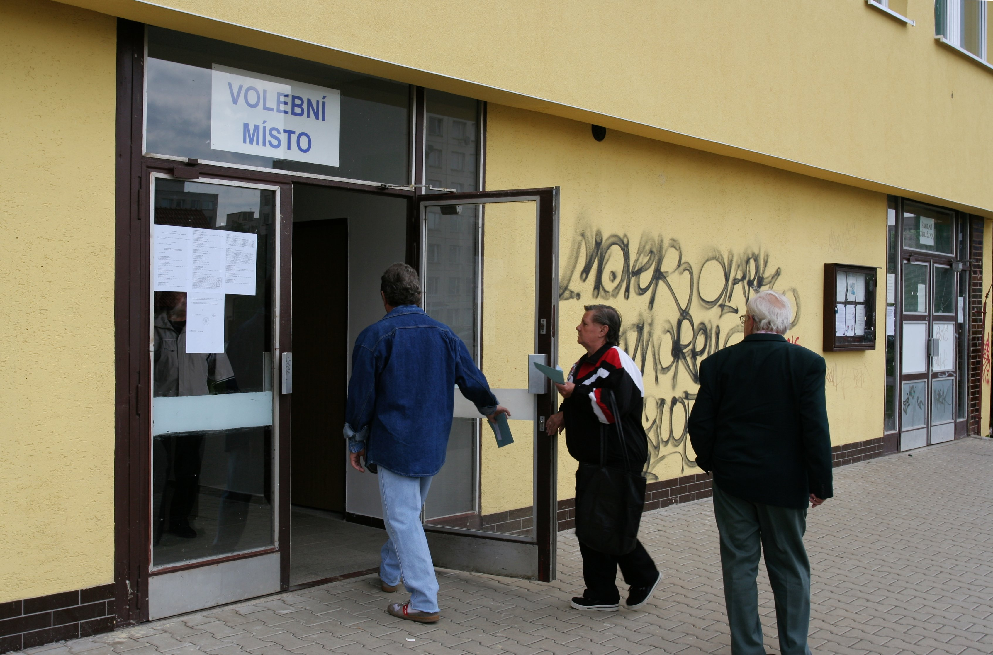 Citizens on their way to vote in Czech parliament elections